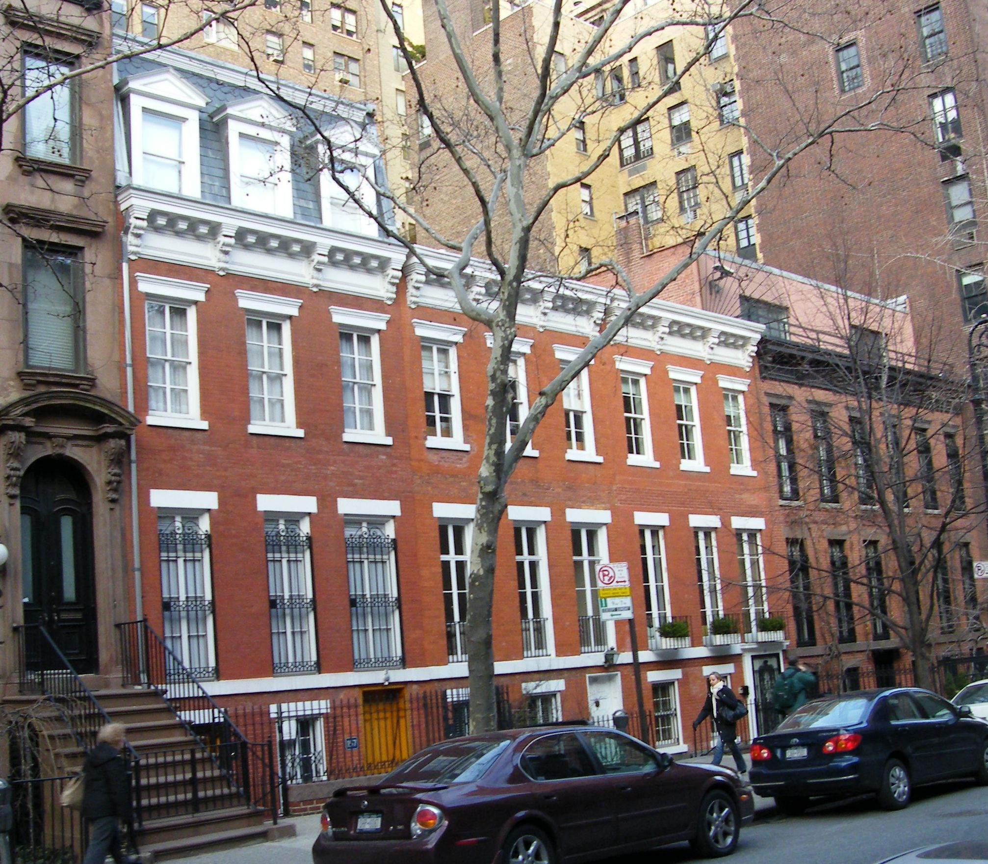 157 East 78th on National Register of Historic Places in New York City. NYCLPC designation 1968, Guidebook map 16.